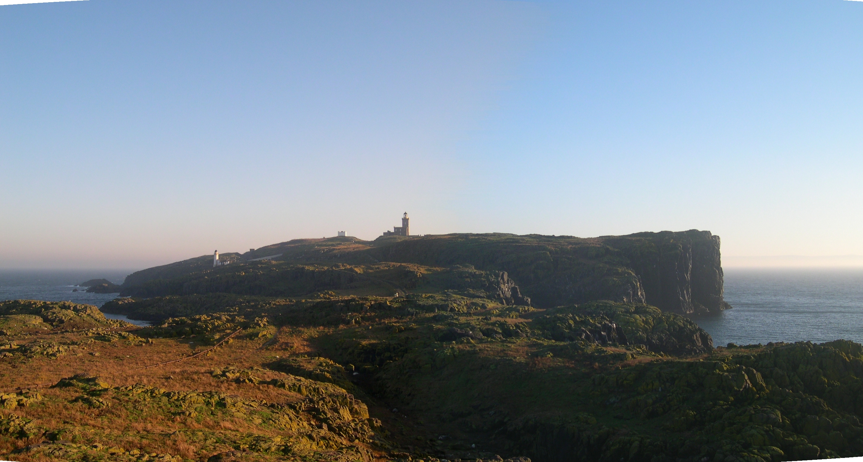 The Isle of May in the Firth of Forth, as seen from the fog horn at the northern end of the island. The Main Light can be seen on the right, the top of the original (though now much reduced in height) coal fired becon is visible in the centre and the low light is on the left. In the foreground the original compressed air pipe that run the length of the island can be seen to the left side of the picture (in line with the low light).